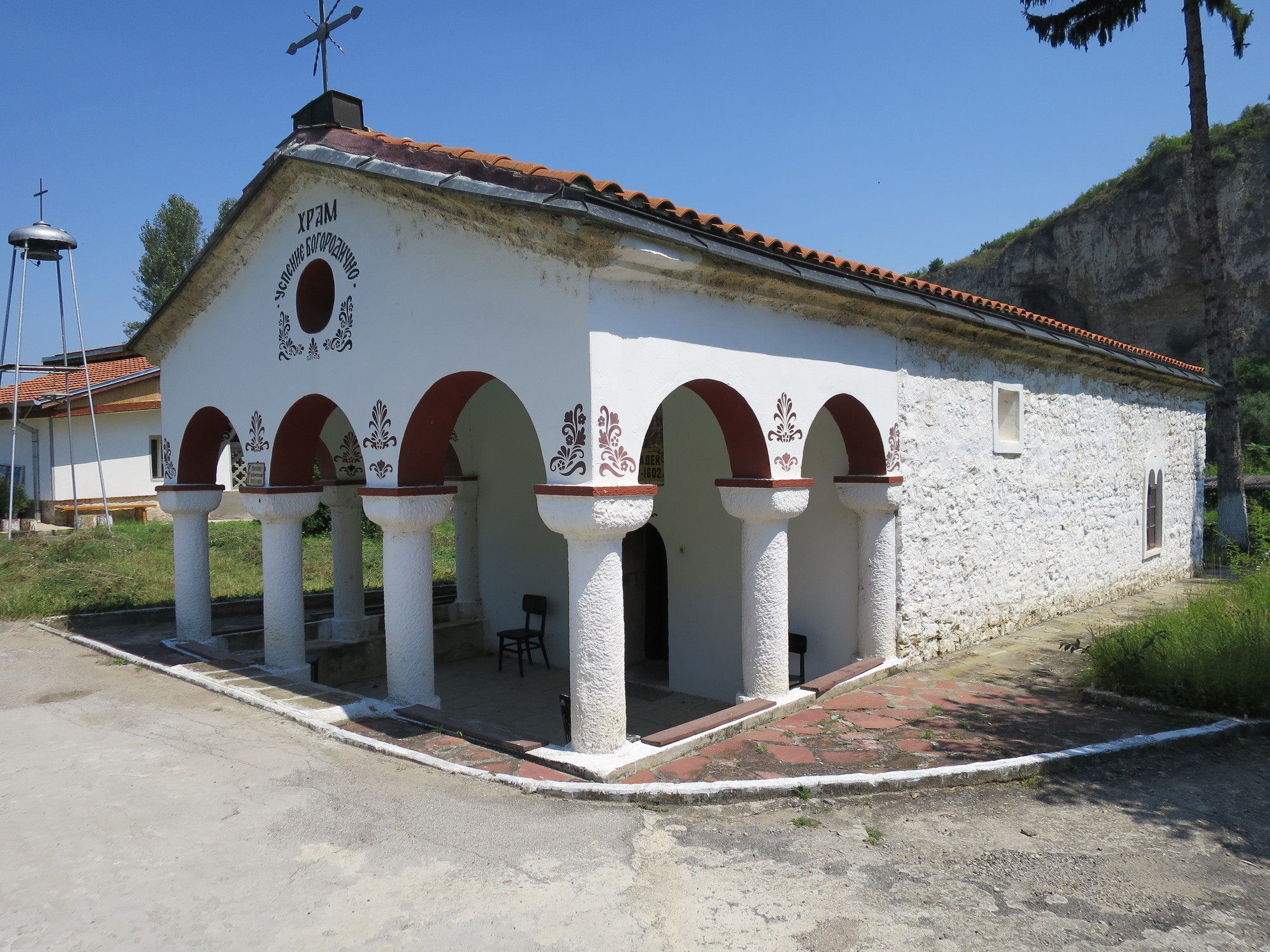 Karlukovo monastery 1